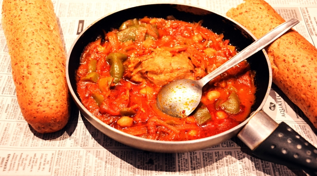 This is an image of food from Tunisia